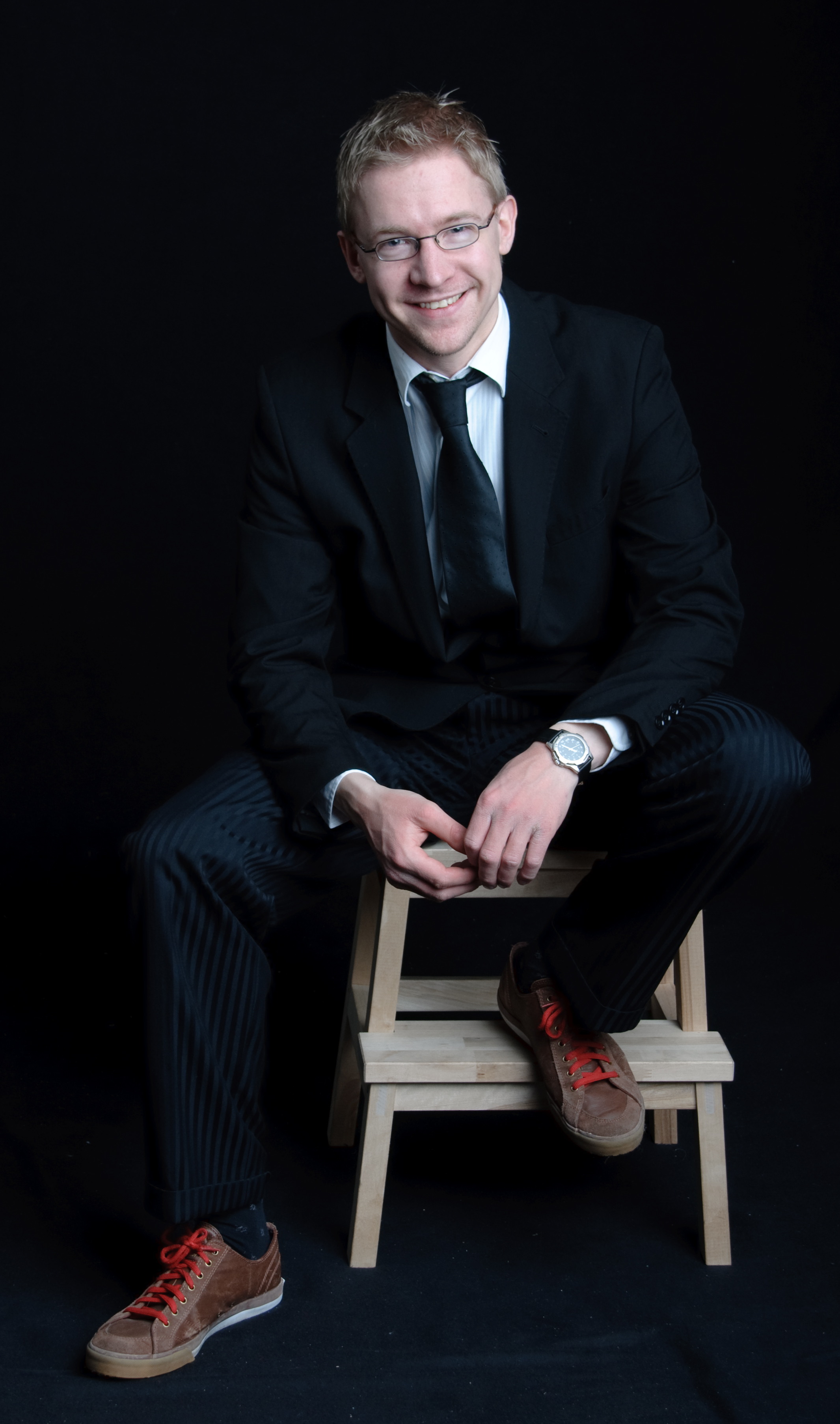 Thiemo Kraas (*1984)